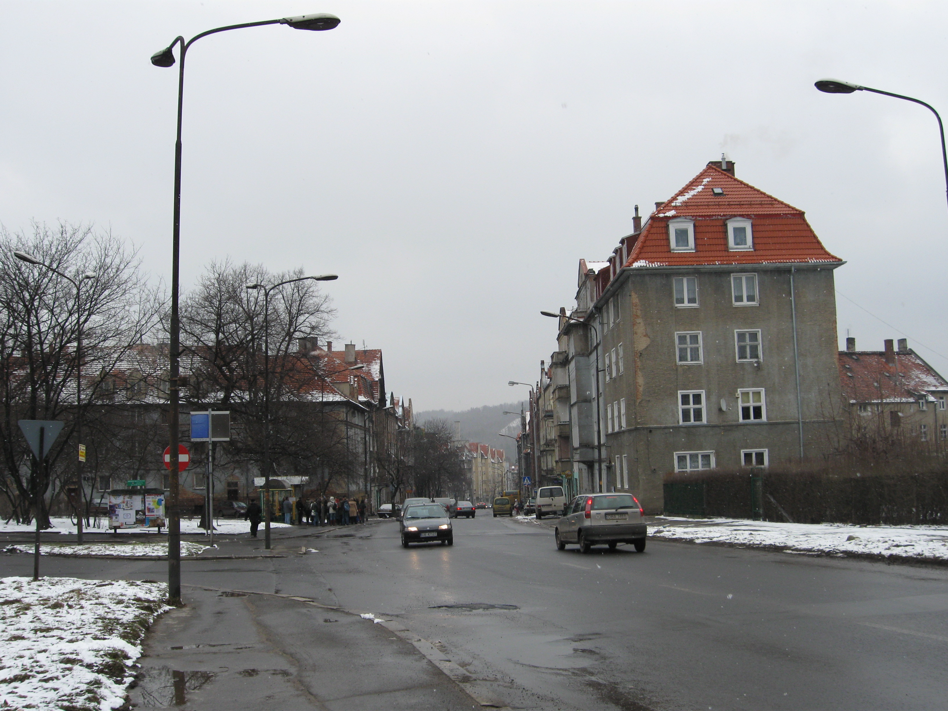 Walbrzych, Pilsudskiego street